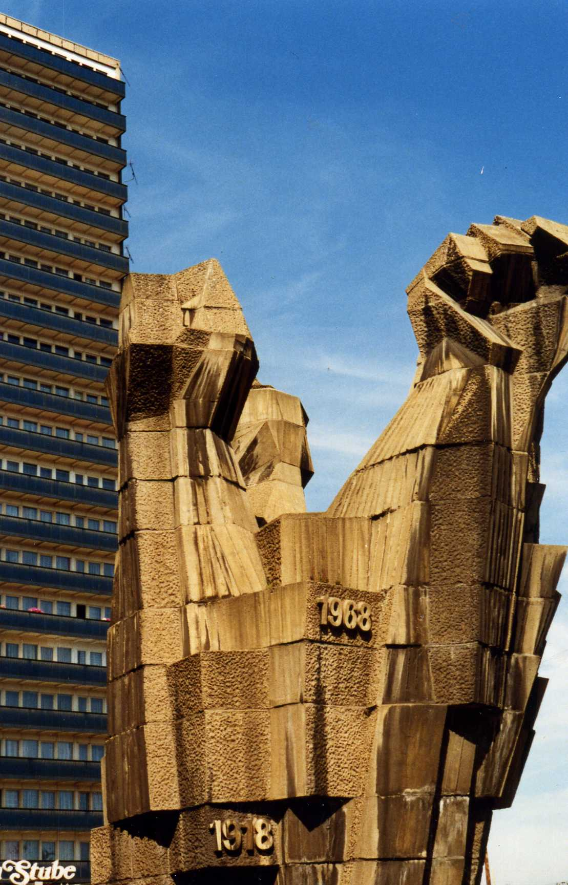 Another view of the 1969 momument in Thaelmannplatz by Heinz Beberniß with Gerd Lichtenfeld (who designed other works in Merseburg) and Sigbert Fliegel, which won an art prize in 1971. After the addition of a few more dates, it was demolished in 2003.